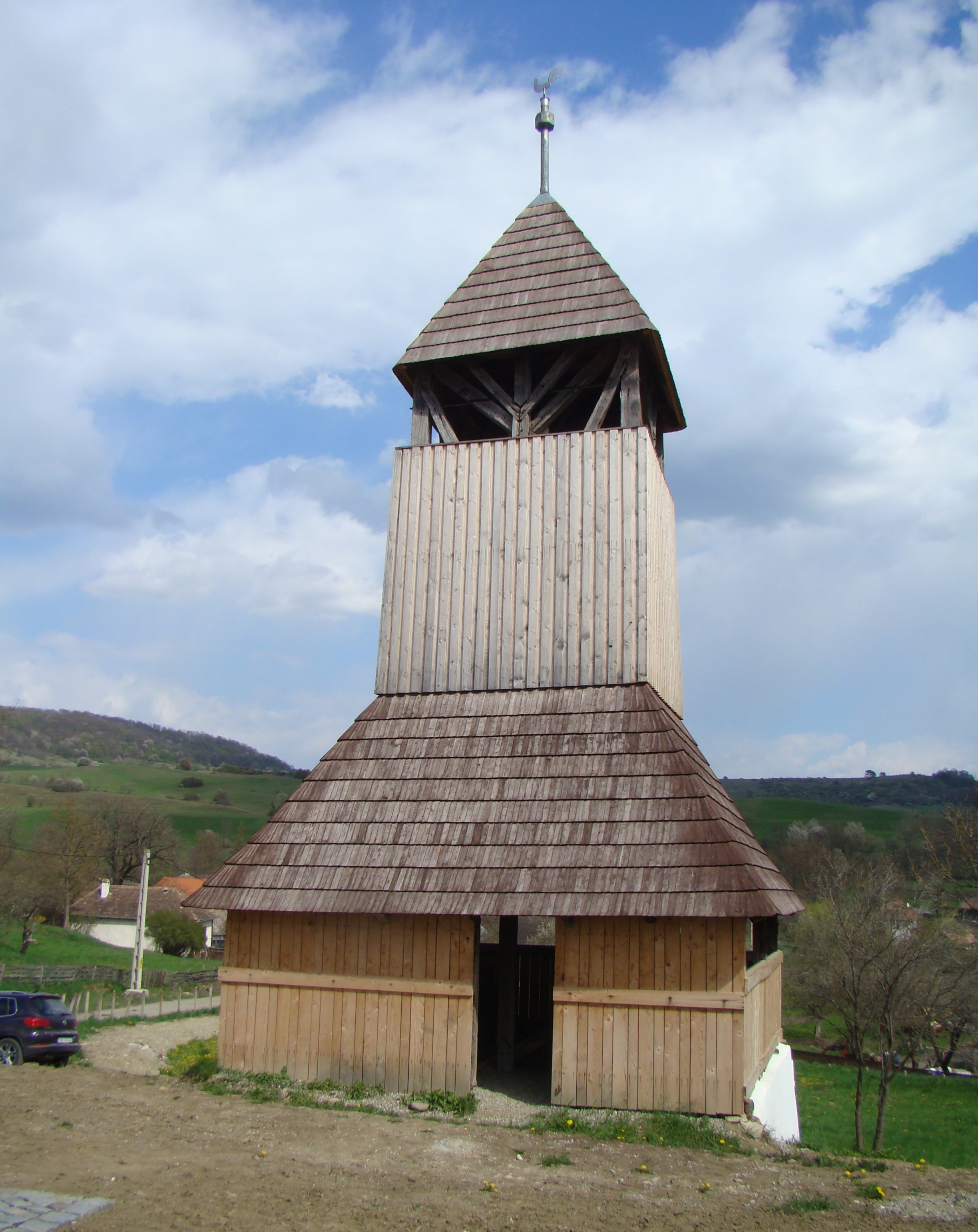 Wooden belfry of the unitarian church in Tărcești, Harghita county, Romania